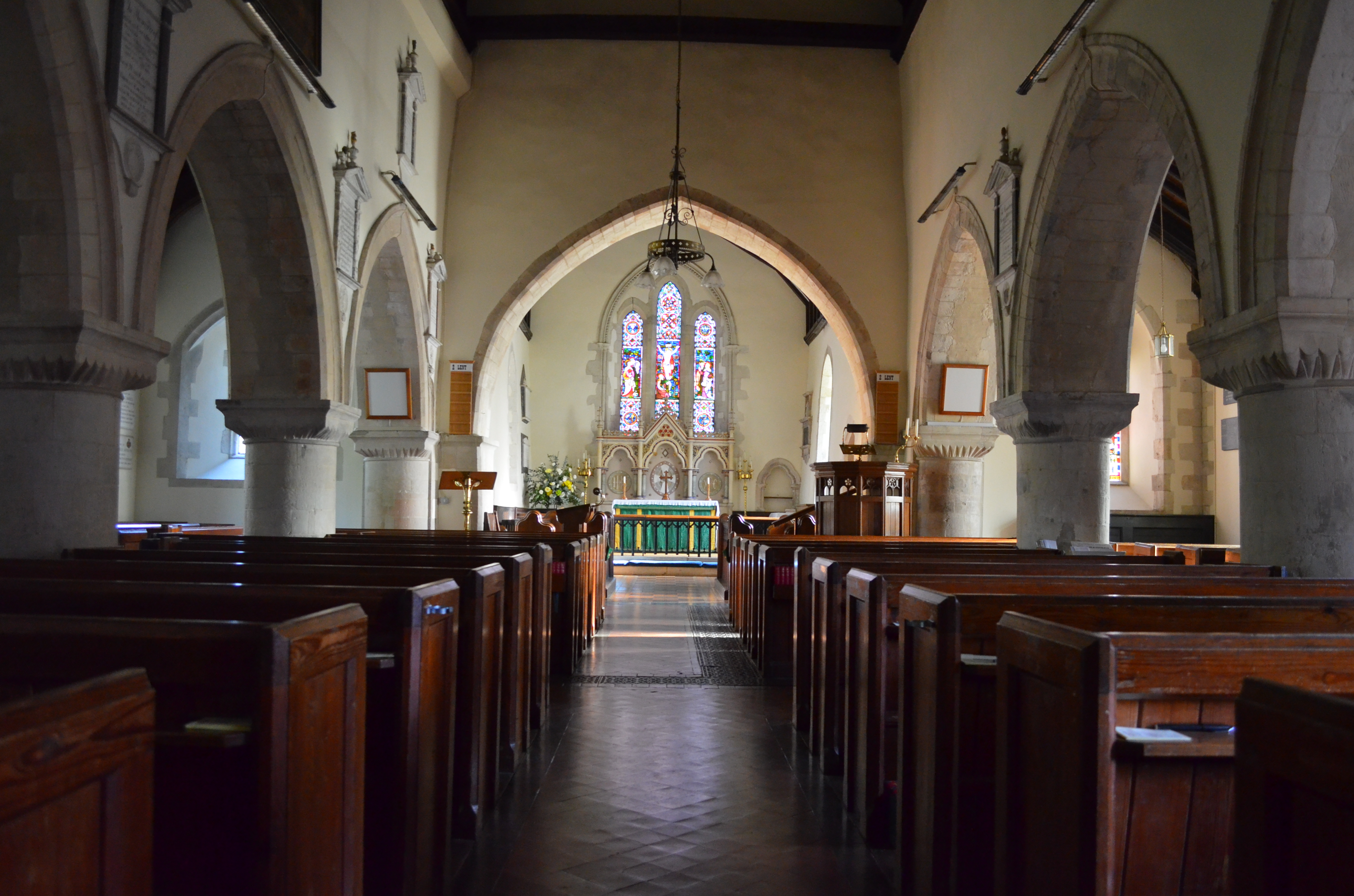 Interior of St Mary's, Bentworth, showing 12th-century nave with transitional Norman arcades